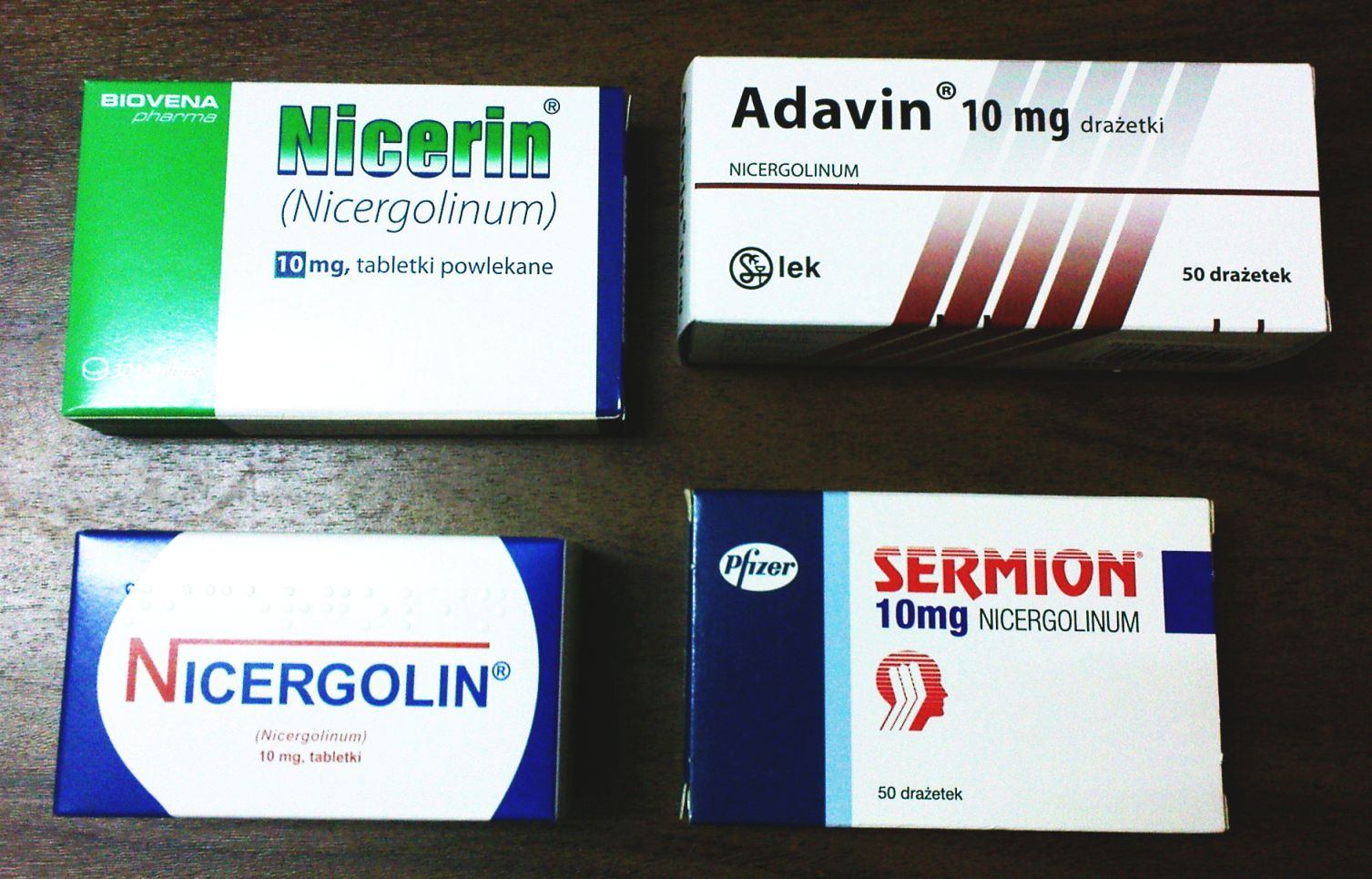 Nicergoline